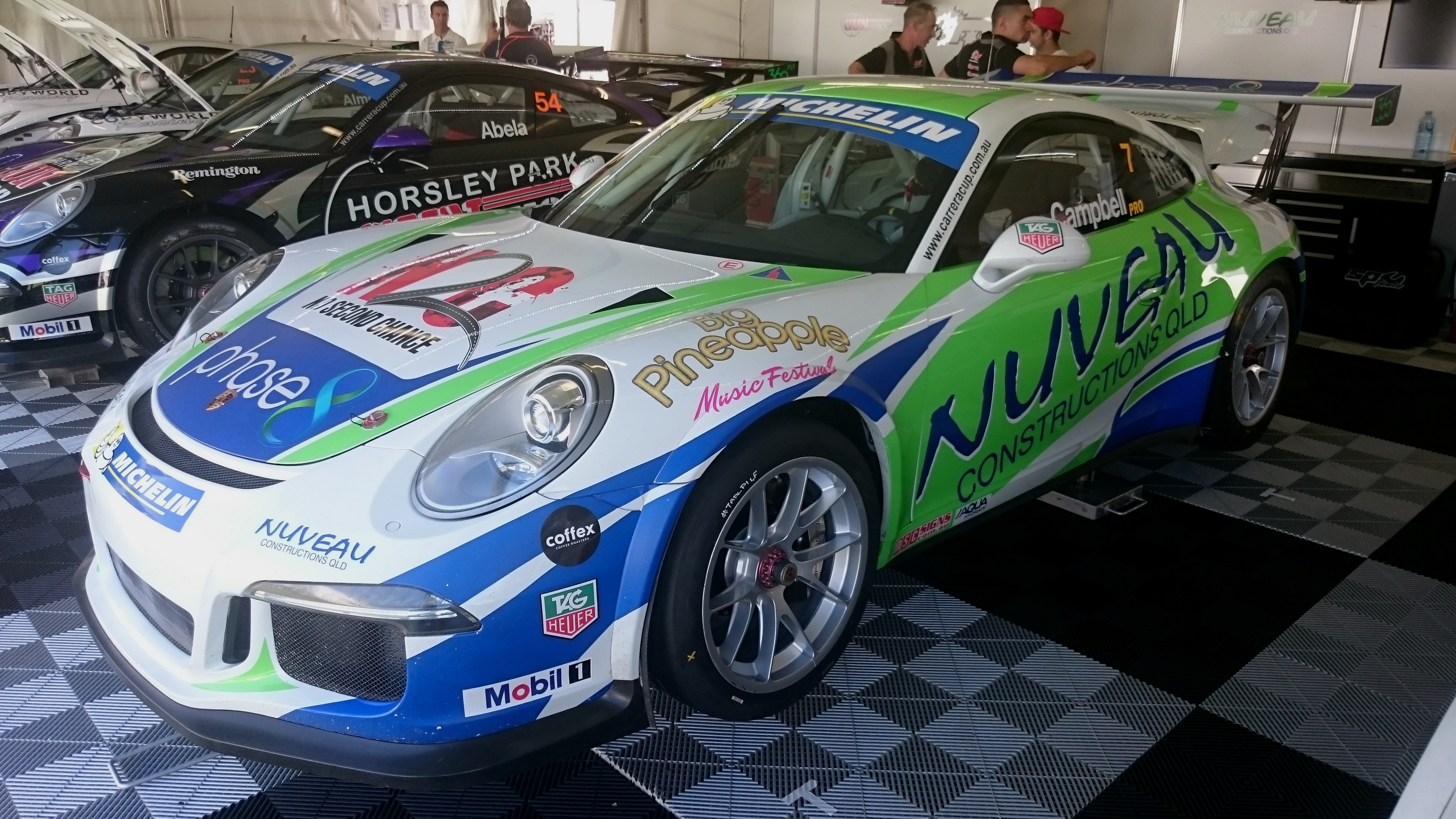 The Porsche 911 GT3 Cup Type 991 of Matt Campbell. Adelaide Parklands Circuit, Round 1, 2016 Porshe Carrera Cup Australia.